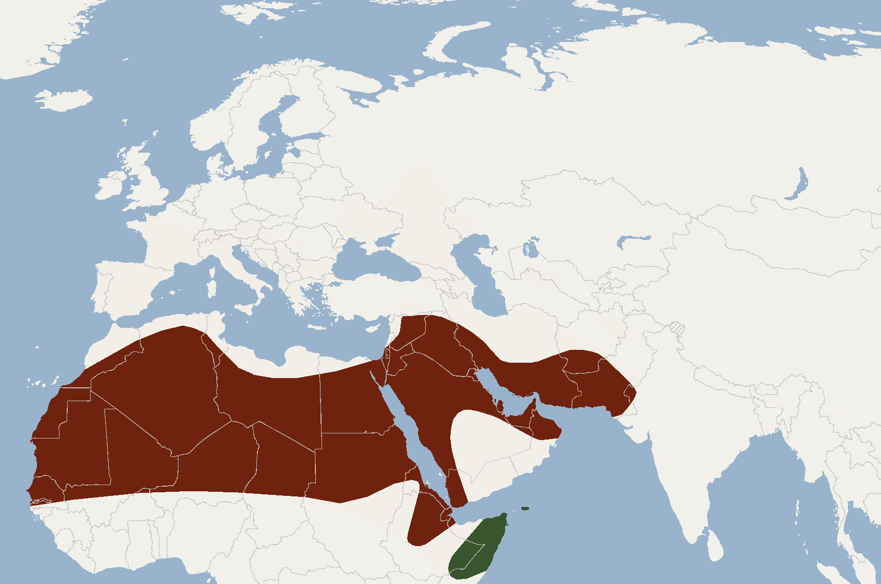 According to Benda & al., 2011